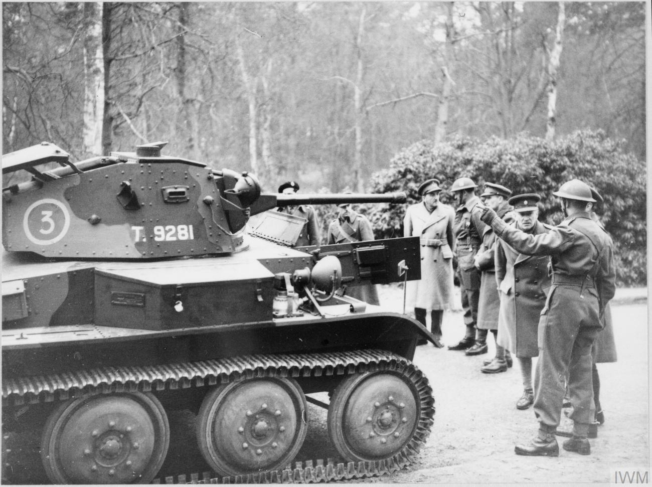 The British Army in the United Kingdom 1939-45 General Sir Alan Brooke, Commander-in-Chief Home Forces (5th from right, facing camera) inspecting a Light Tank Mk VII (Tetrarch) at the Army Staff College at Camberley, 6 January 1941.